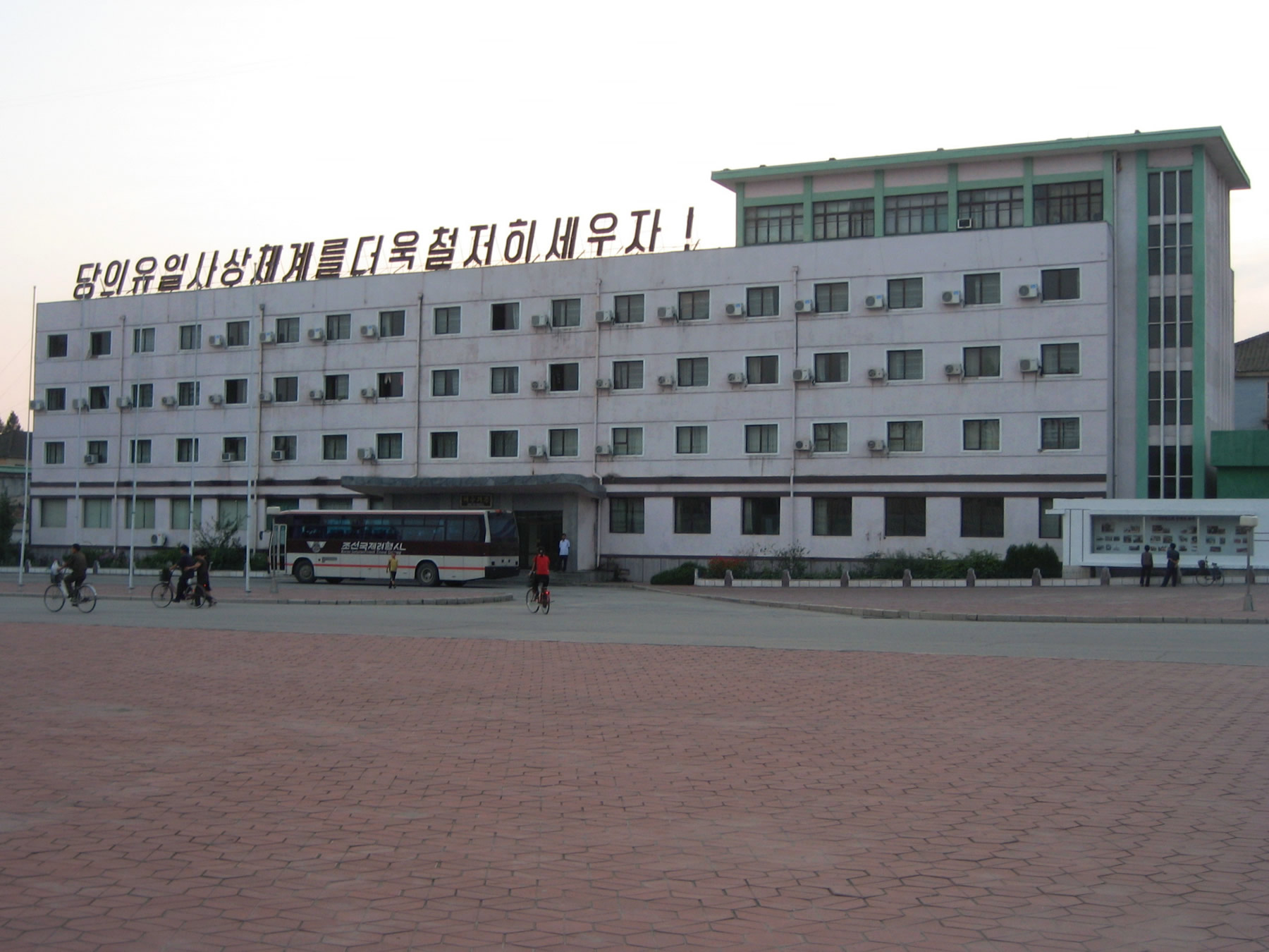 The Haeju Hotel on the main square of this seldom-visited city.